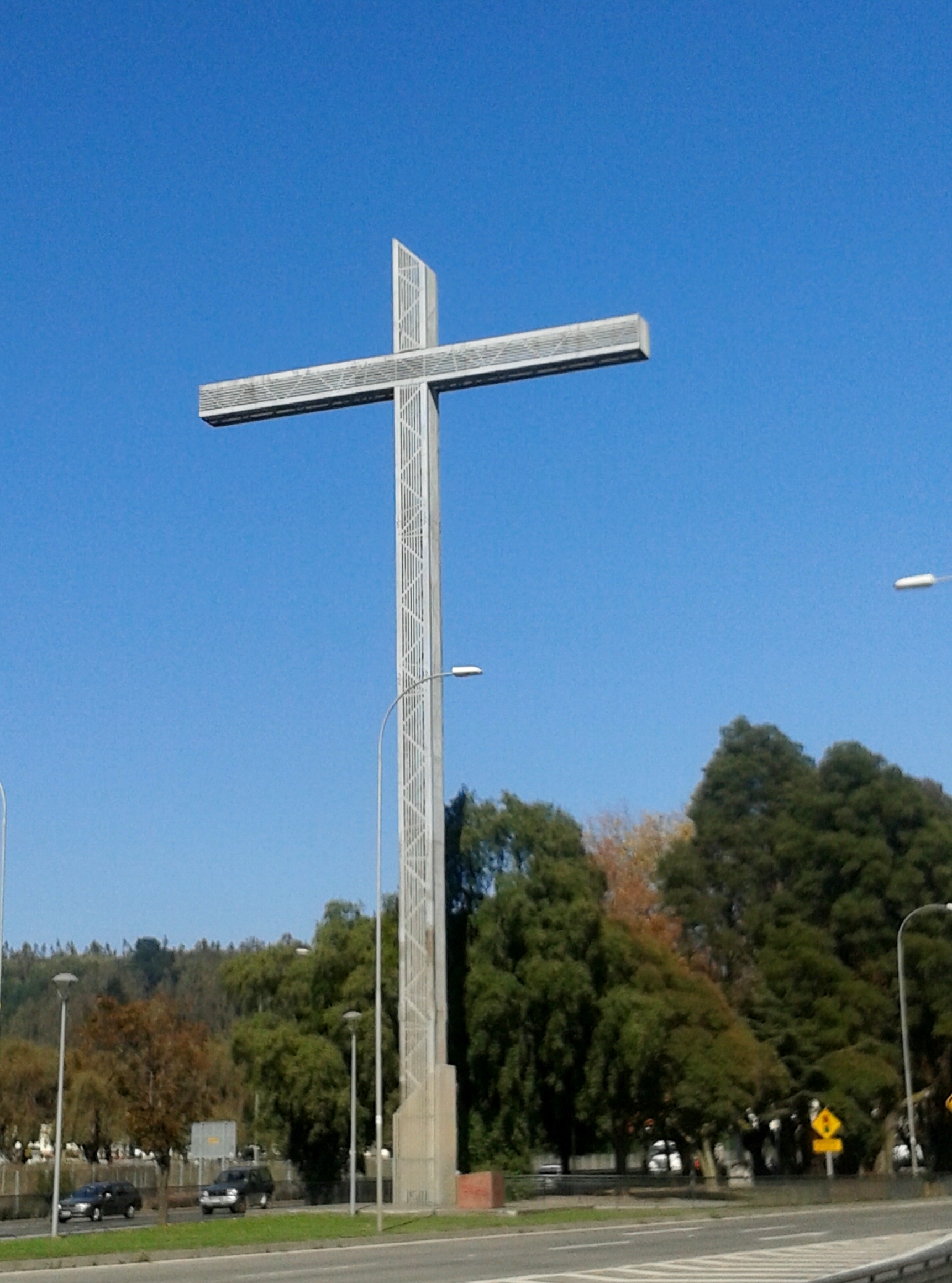 Cross of the Fifth Centenary of Evangelization in Concepción, Chile